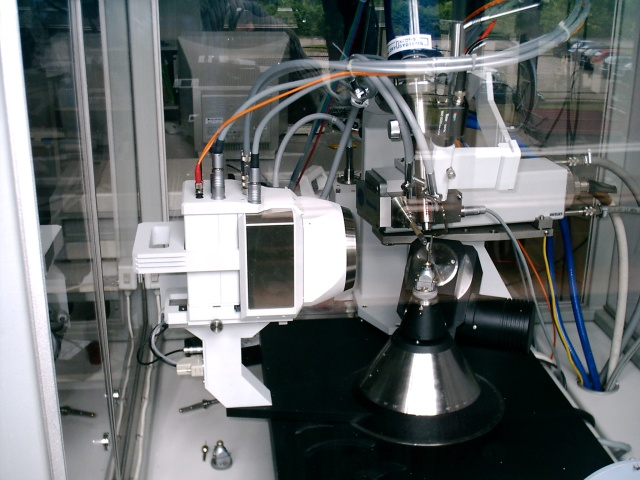 4-circle diffractometer (Department of Inorganic Chemistry, Technical University of Gdańsk, Poland)